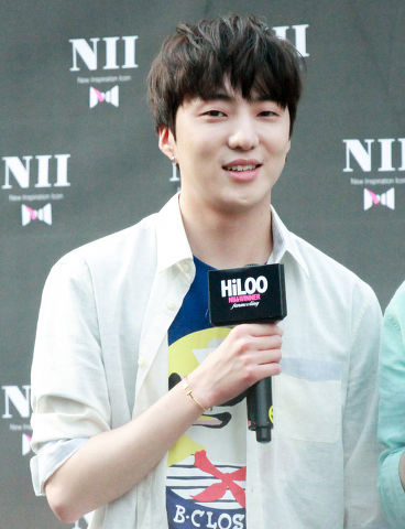 Kang Seung-yoon at NII Fanmeeting 'Hi-Loo' on May 15, 2015